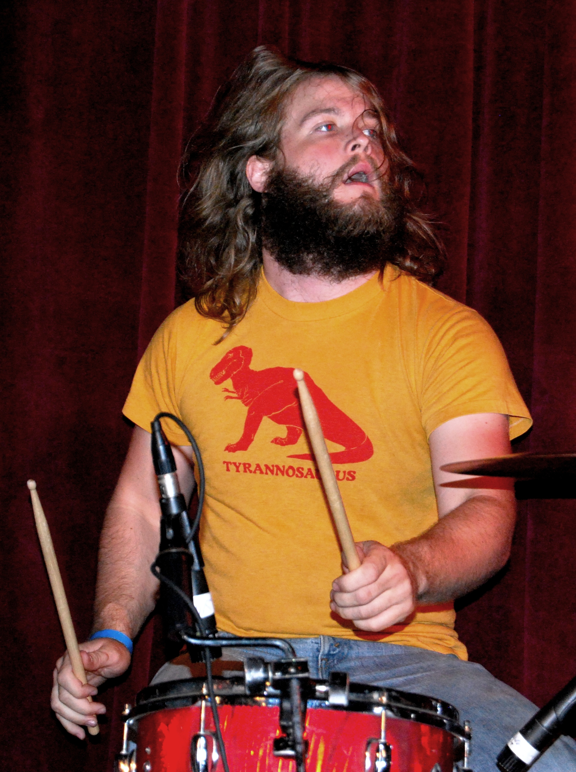 Picture taken of Benjamin Jesse Blackwell (better known as Ben Blackwell) performing as a member of 'The Dirtbombs'. This image serves as a form of Identification for relevant articles.